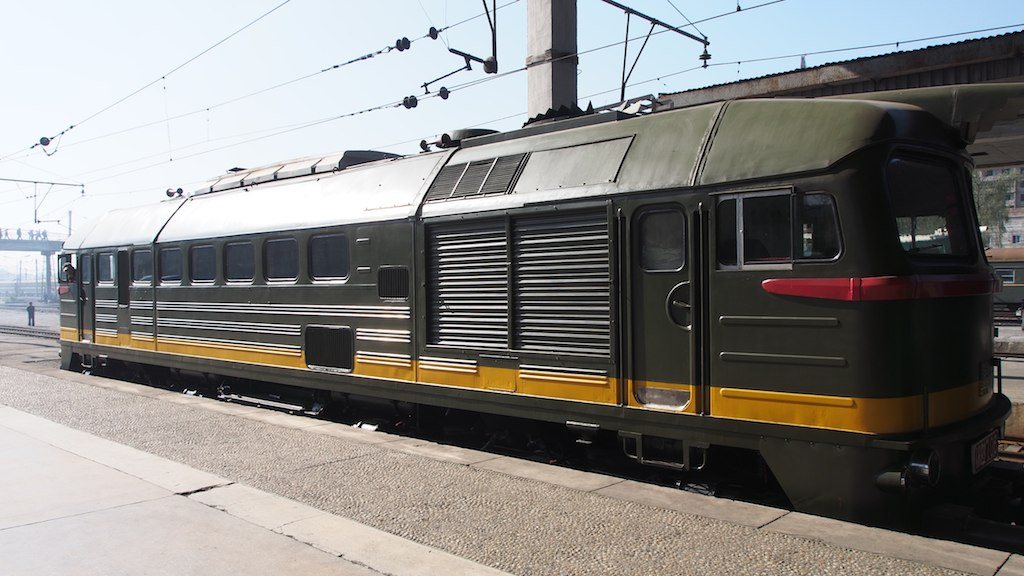 Soviet-built M62 second-hand from Germany.